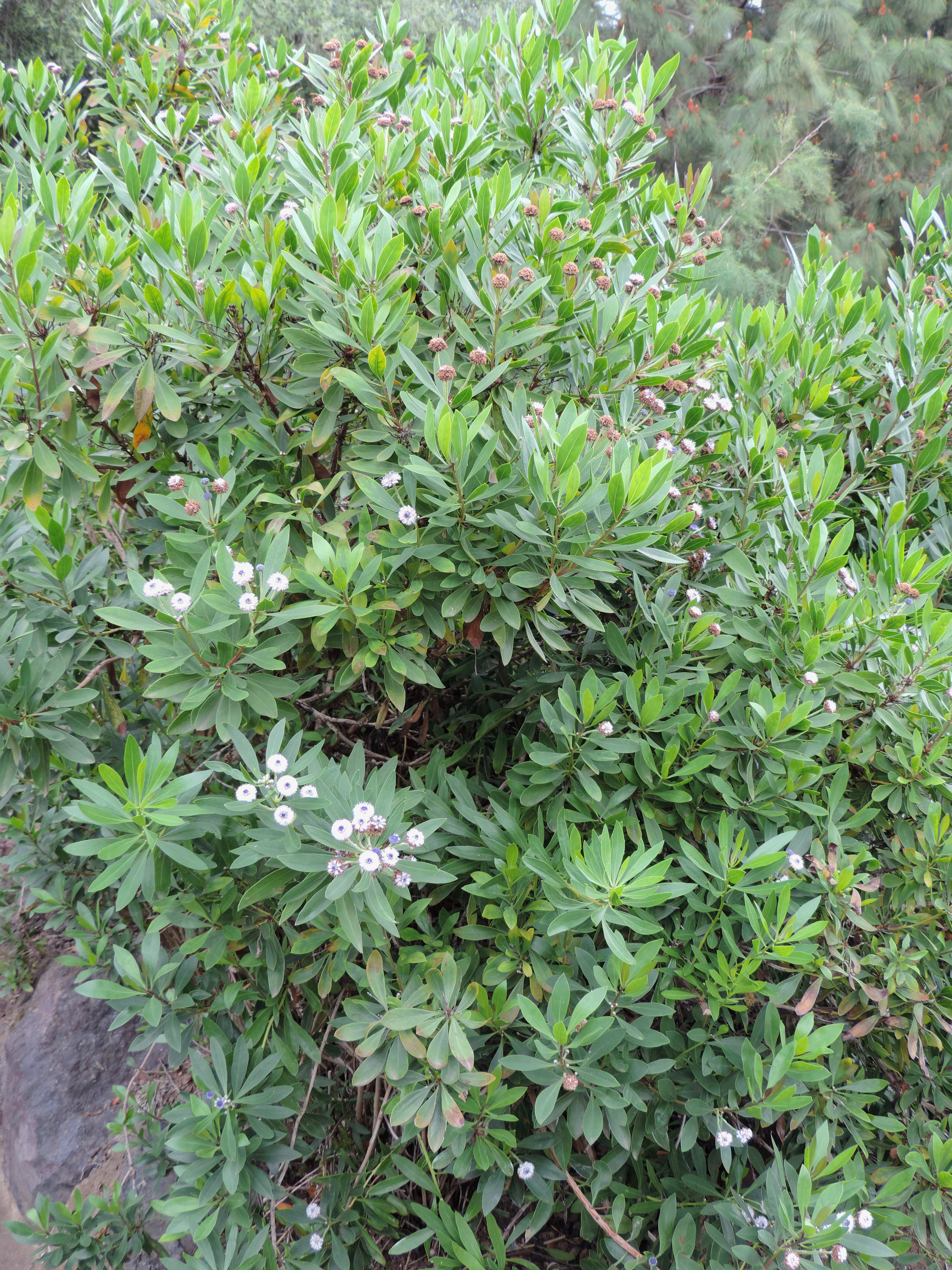 Globularia ascanii in Jardín Botánico Canario Viera y Clavijo